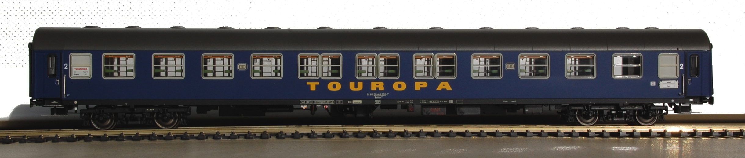 Scale model LS Models of the Touropa Bctüm256 couchette car.